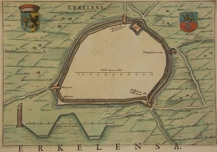 Erkelens (Fortification of the Town Erkelenz)